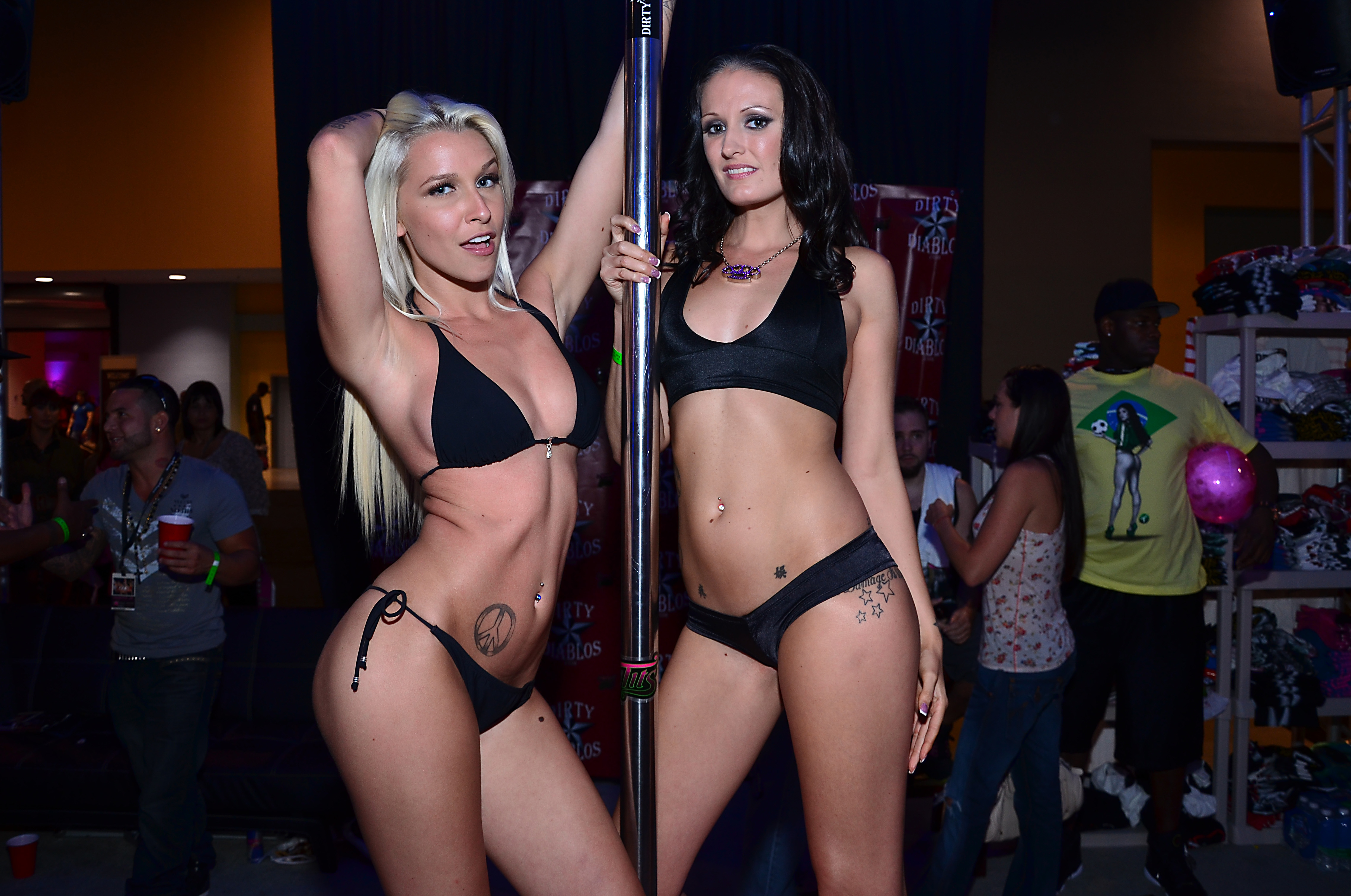 Stevie Shae and Hailey Young at Exxxotica Miami Beach on May 20, 2011